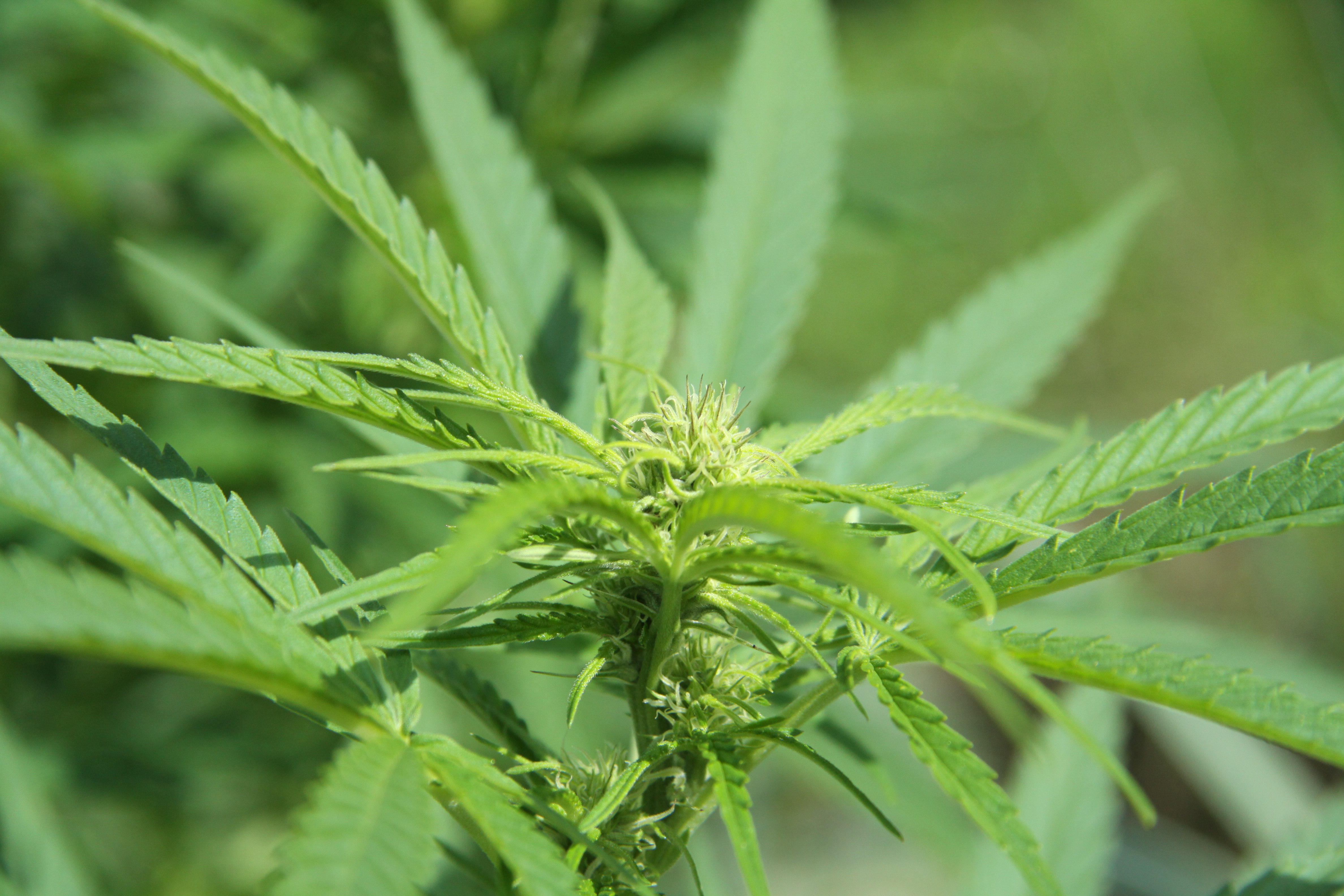 Cannabis sativa plant